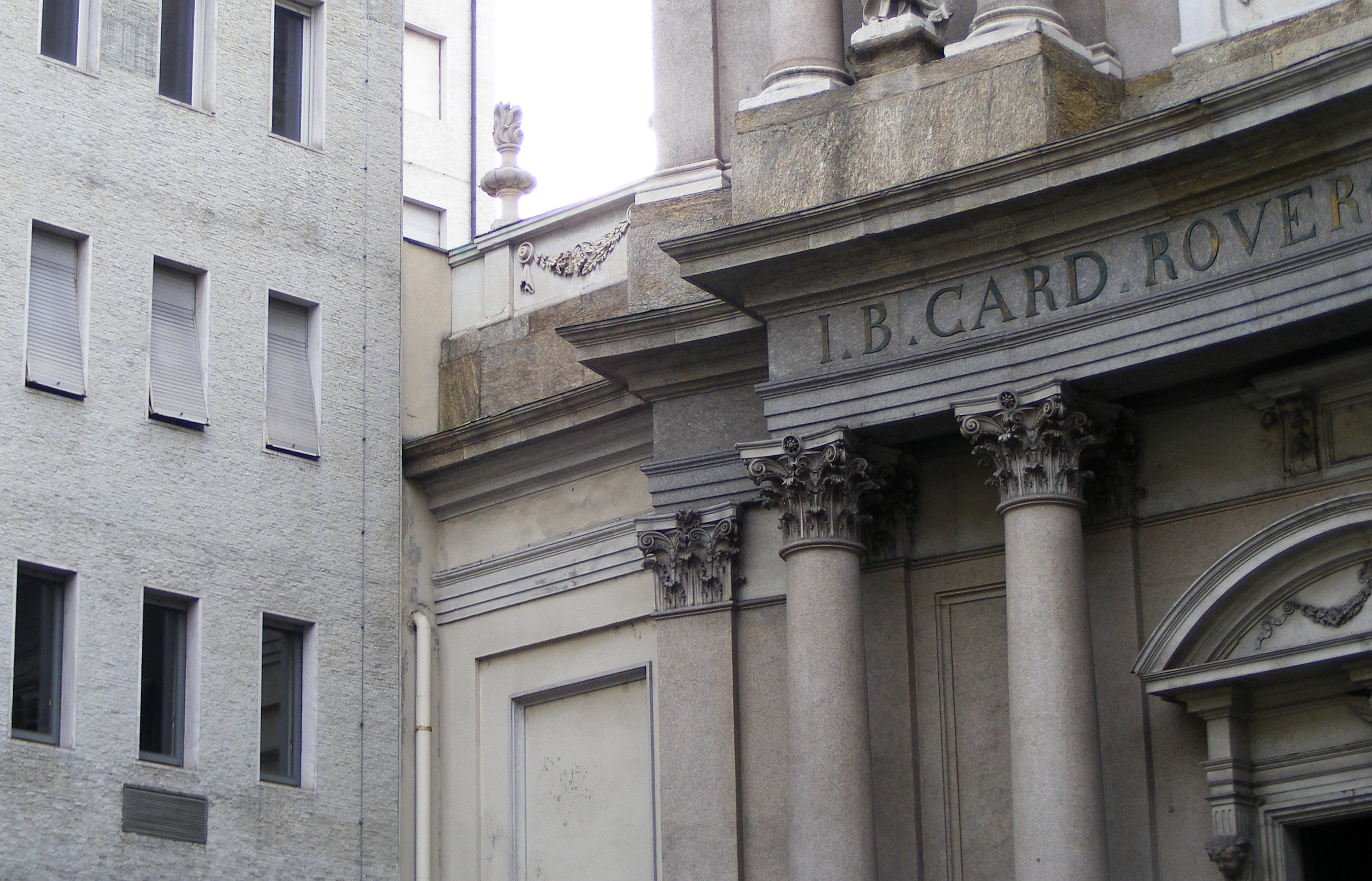 Torre XX Settembre (Turin, Italy): connection with Santa Teresa church